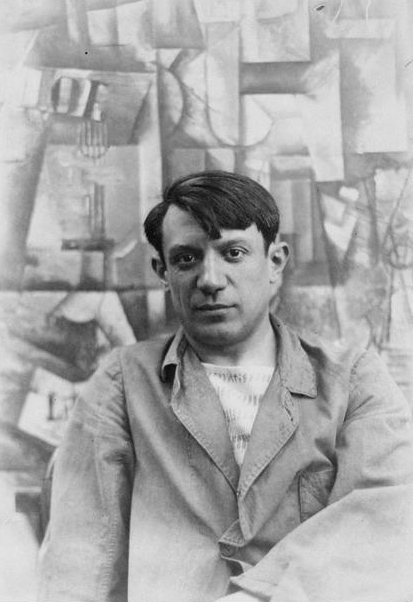 Portrait photograph of Pablo Picasso, in front of his painting The Aficionado (Kunstmuseum Basel) at Villa les Clochettes, Sorgues, France, summer 1912